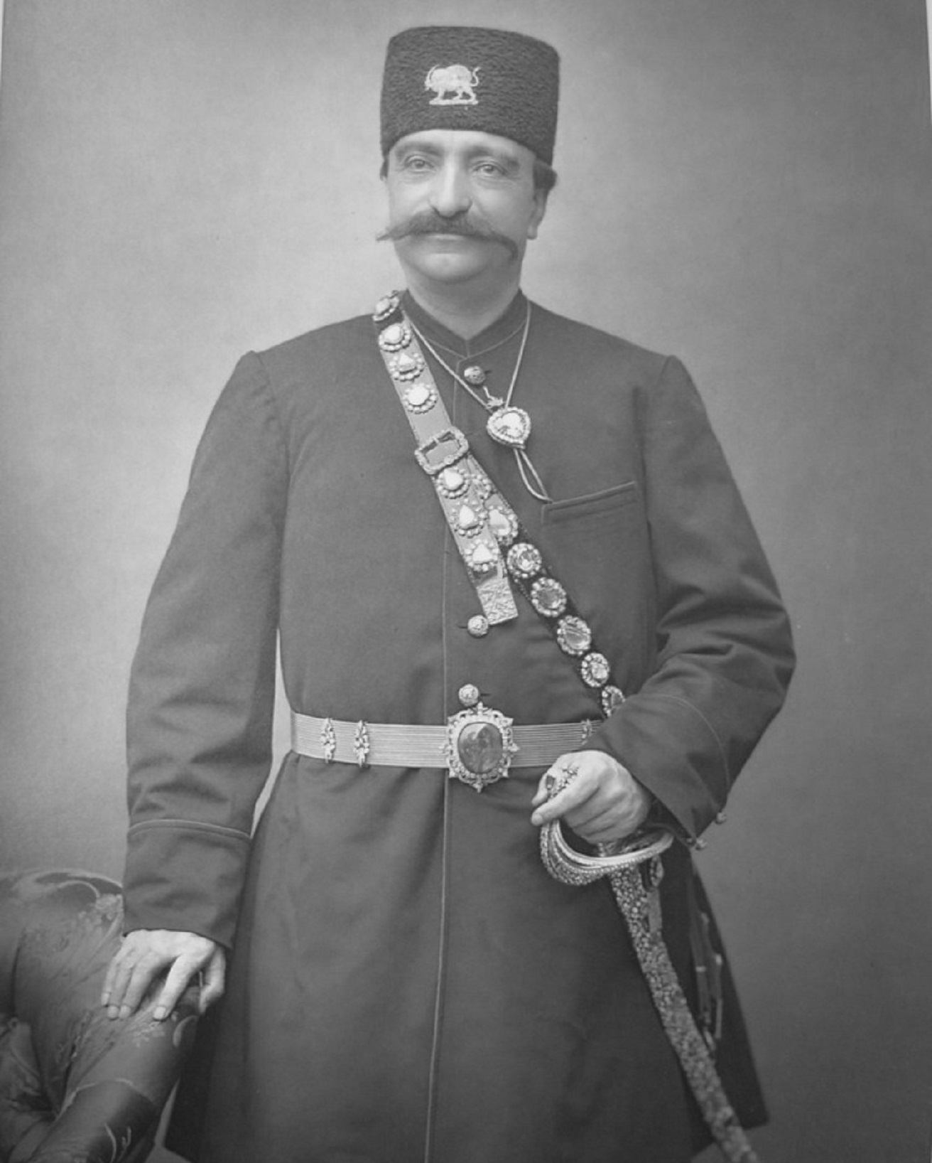 Naser al-Din Shah Qajar (1831-1896), Shah from Persia.